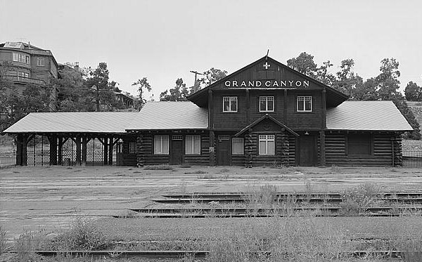 Grand Canyon Depot — of the present day Grand Canyon Railway. Located in Grand Canyon Village at the South Rim of the Grand Canyon, in Grand Canyon National Park. The log station was constructed in 1909-10 for the Atchison, Topeka and Santa Fe Railway, and is within 330 feet (100 m) of the canyon rim opposite the El Tovar Hotel, both built by the railroad before the park was created. Image courtesy of Historic American Buildings Survey—HABS - (cropped).